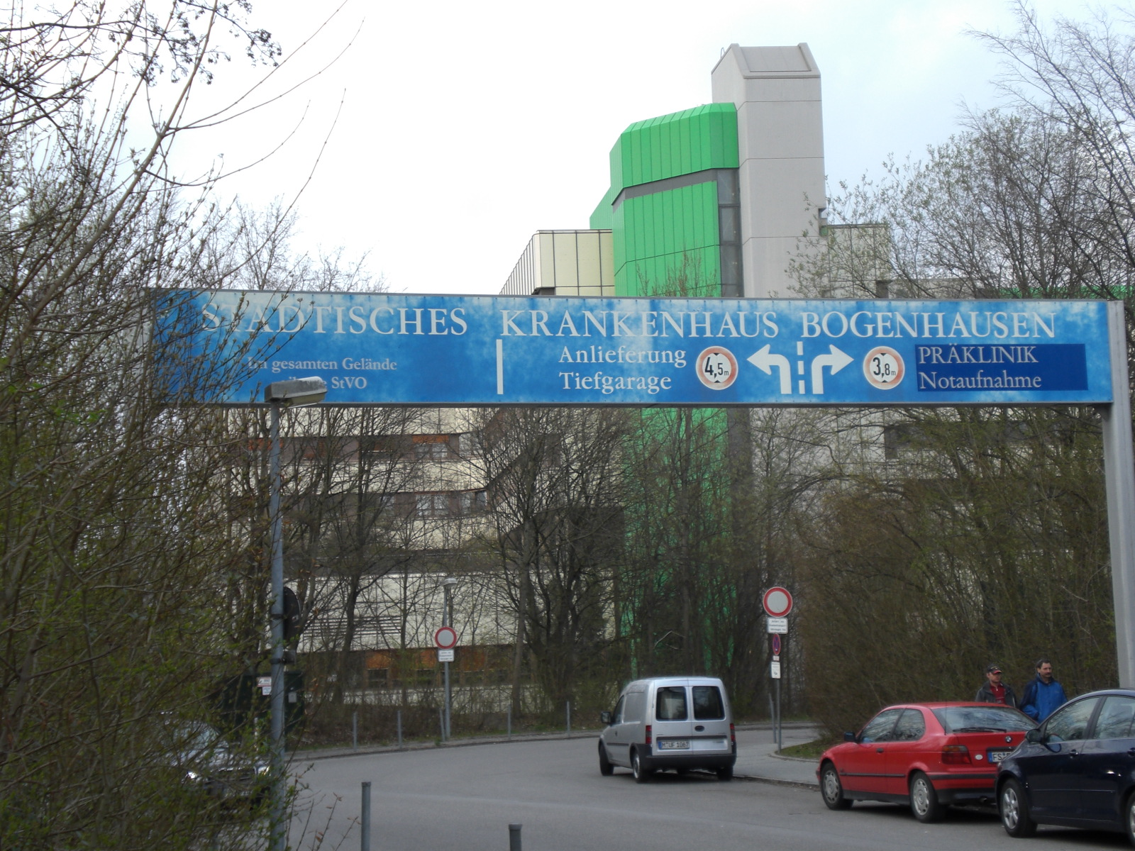 access to municipal clinic Bogenhausen in Munich, Germany